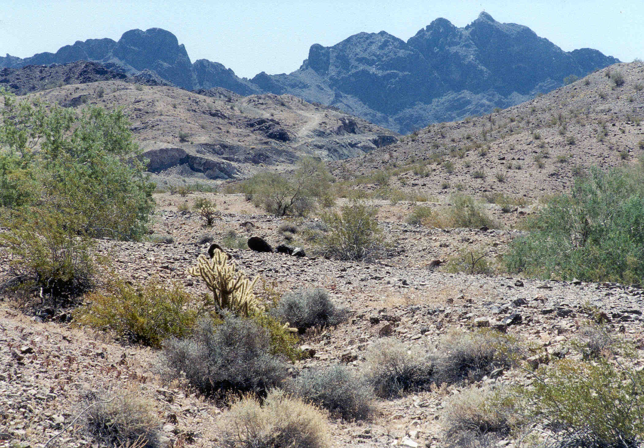 View of Trigo Mountains Wilderness, AZ